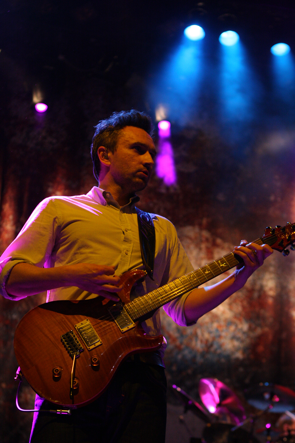 The Cranberries Enmore Theatre, Sydney Tonight The Cranberries perform tonight at Sydney's famous Enmore Theatre. The iconic group is fronted by Dolores O’Riordan and lit up the charts around the world for more than a decade with classics such as Linger, Dreams and Zombie. They have sold more than 30 million albums and have had two number one albums in Australia, No Need To Argue (1994) and To The Faithful Departed (1996). Other live favourites include Free To Decide, When You’re Gone, Salvation, Ode To My Family and Ridiculous Thoughts. They’ve performed to millions of fans across the globe including several appearances for the Pope. They’ve graced the cover of Rolling Stone and performed on Letterman and Leno. After taking a few years out to raise their families, THE CRANBERRIES release a new album, Roses, on February 27, the quartet’s first studio album since Wake Up and Smell the Coffee in 2001. THE CRANBERRIES are well known for their exceptional live performances. Dolores says “There’s something about playing with THE CRANBERRIES, it’s like putting on the pair of perfect shoes. It’s a chemistry. It just fits.” Popular Melbourne-based NZ reggae/roots/funk five-piece BONJAH will be the special guests. With over 500 Australian gigs under their belt and their second album, Go Go Chaos, hitting the charts last year, BONJAH will kick off the evening in fine style. Don’t miss your only chance to see The Cranberies perform their only Australian solo show. Websites The Cranberries Enmore Theatre McManus Entertainment Flourish PR Eva Rinaldi Photography Flickr Eva Rinaldi Photography Music News Australia